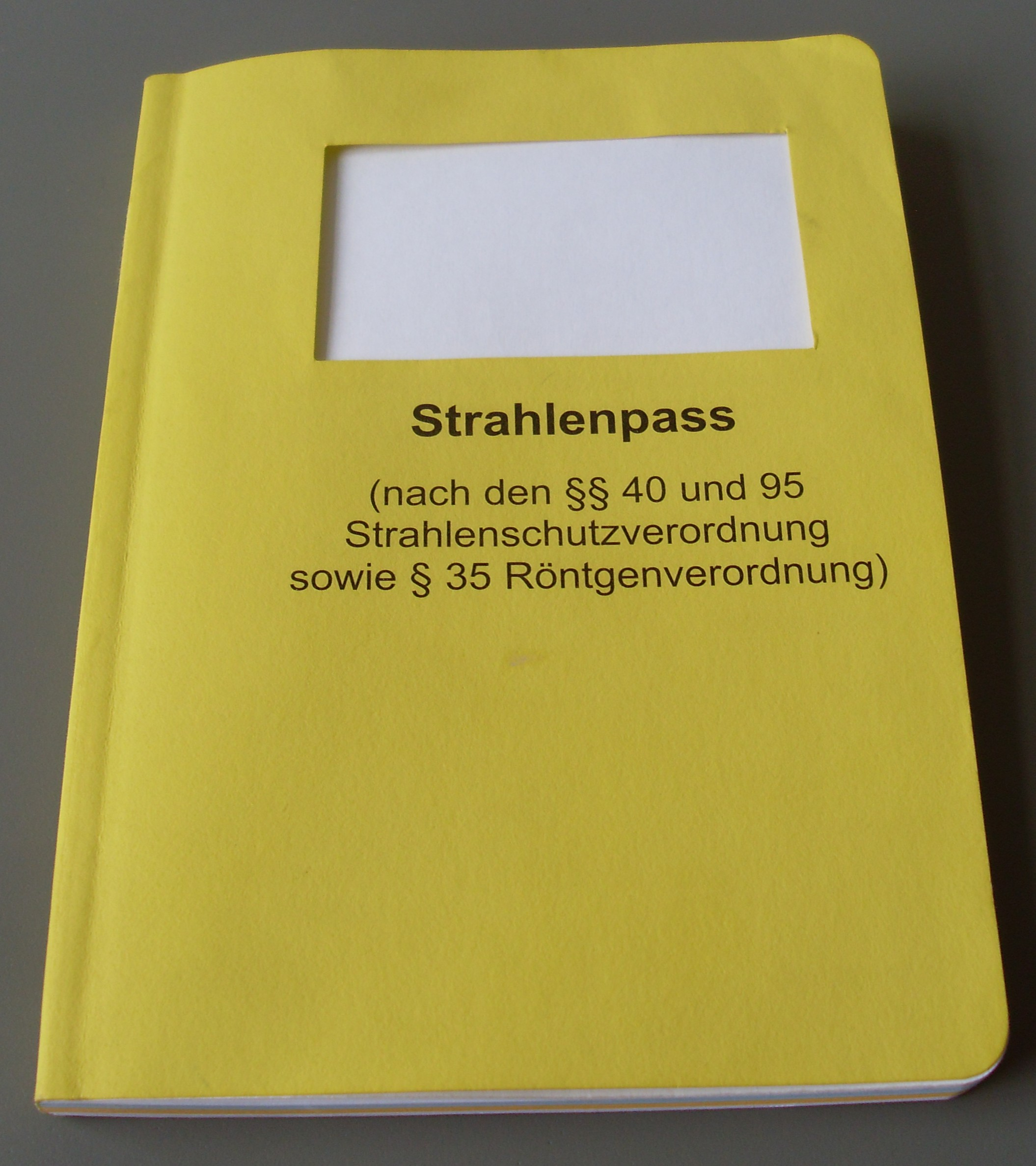 German radiation passport